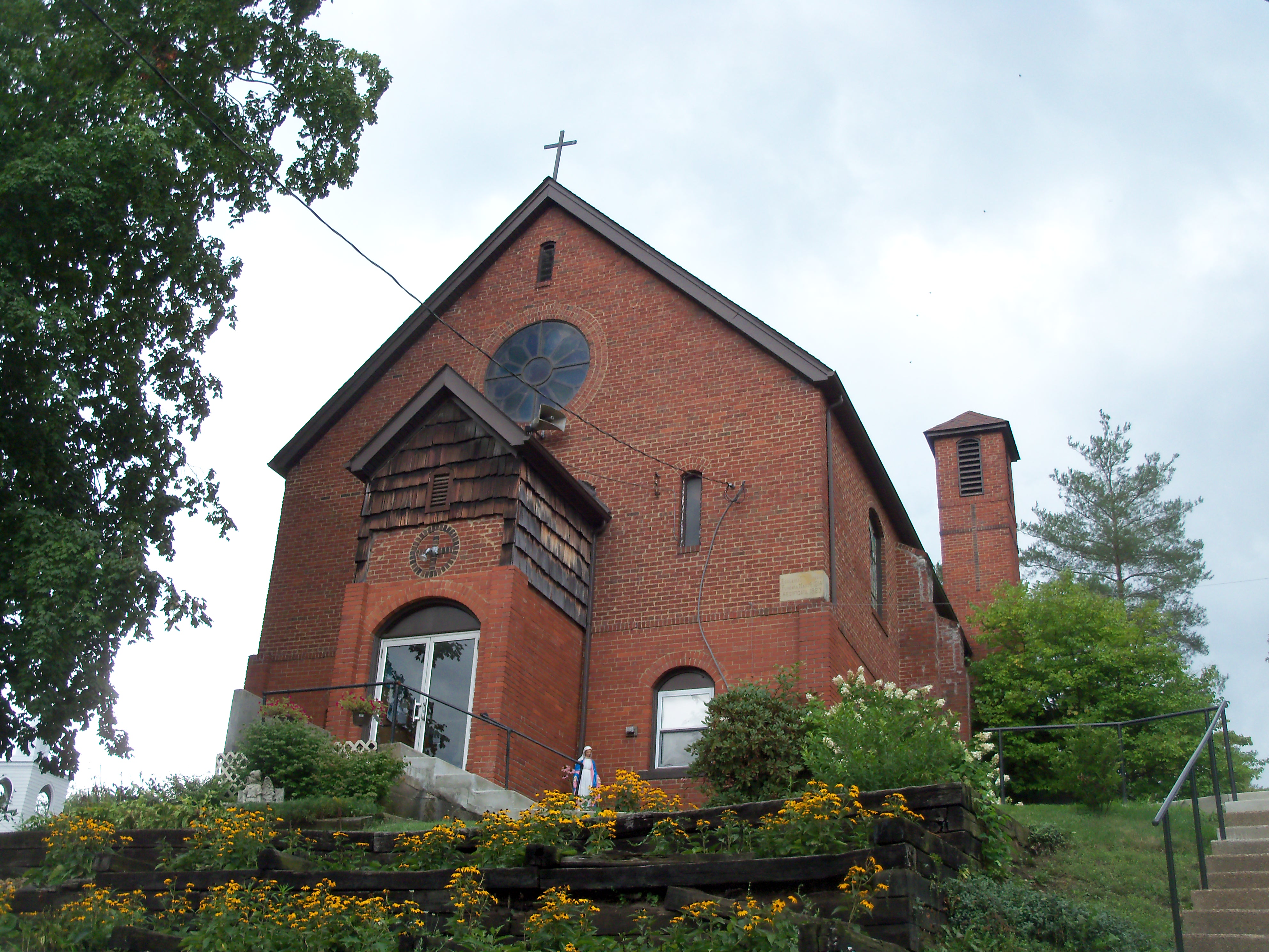 St. Joseph Catholic Church at 333 North Main St., Amsterdam, Ohio.